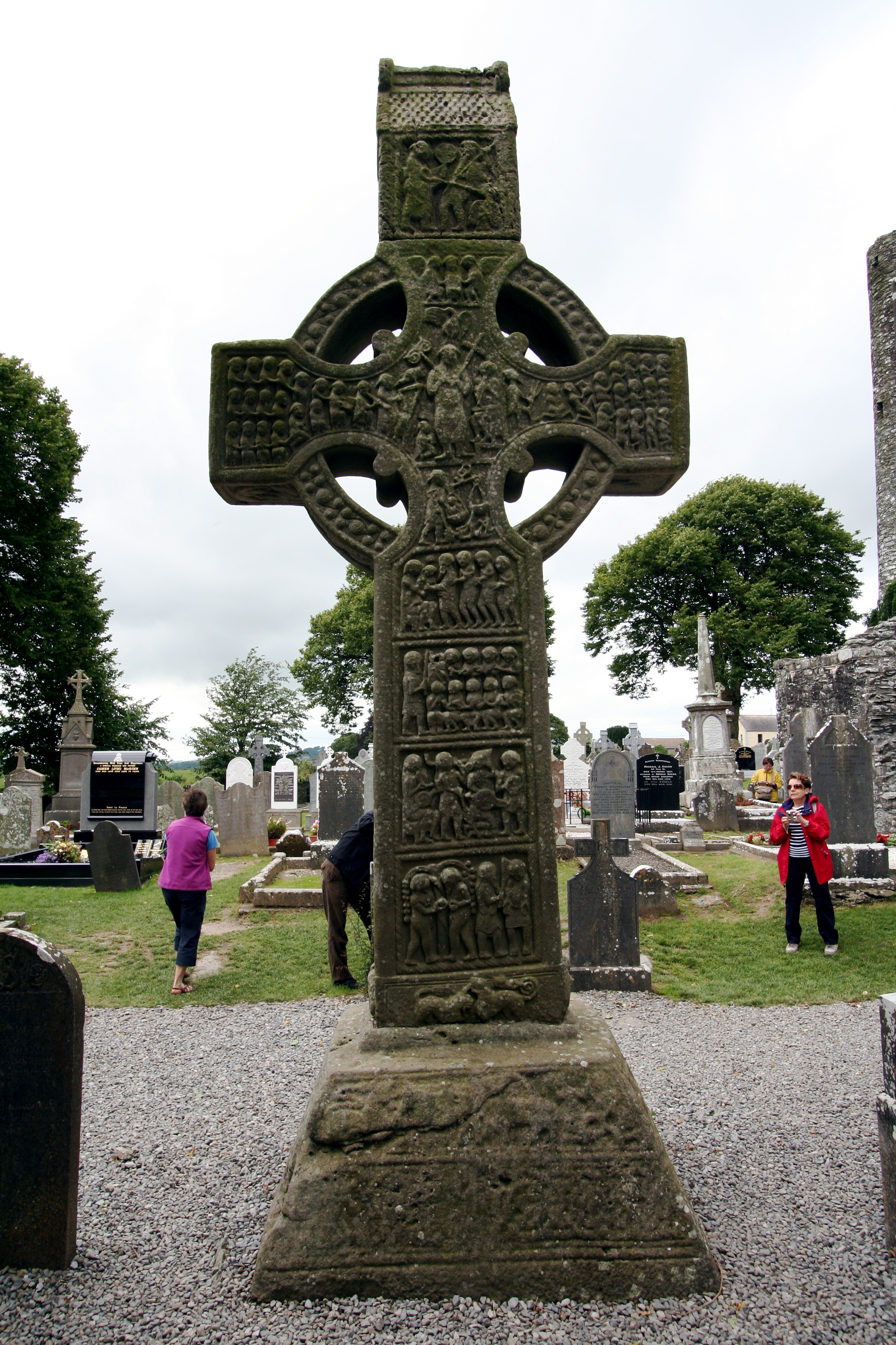 Photo of Muiredach's High Cross, located at Monasterboice, County Louth, in the Republic of Ireland.Monasterboice 19